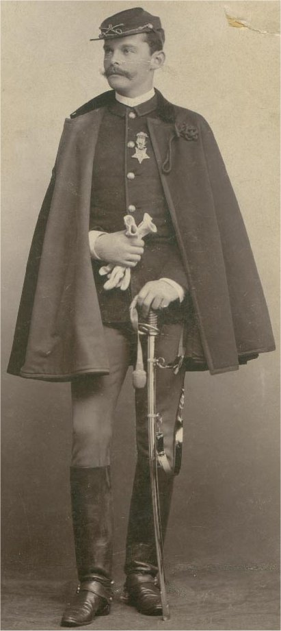 Lieutenant Powhatan Henry Clarke (1862-1893), wearing his Medal of Honor, official Army photograph